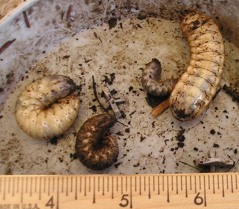 Figeater beetle (Cotinis mutabilis) larvae from the compost pile, San Jose, California